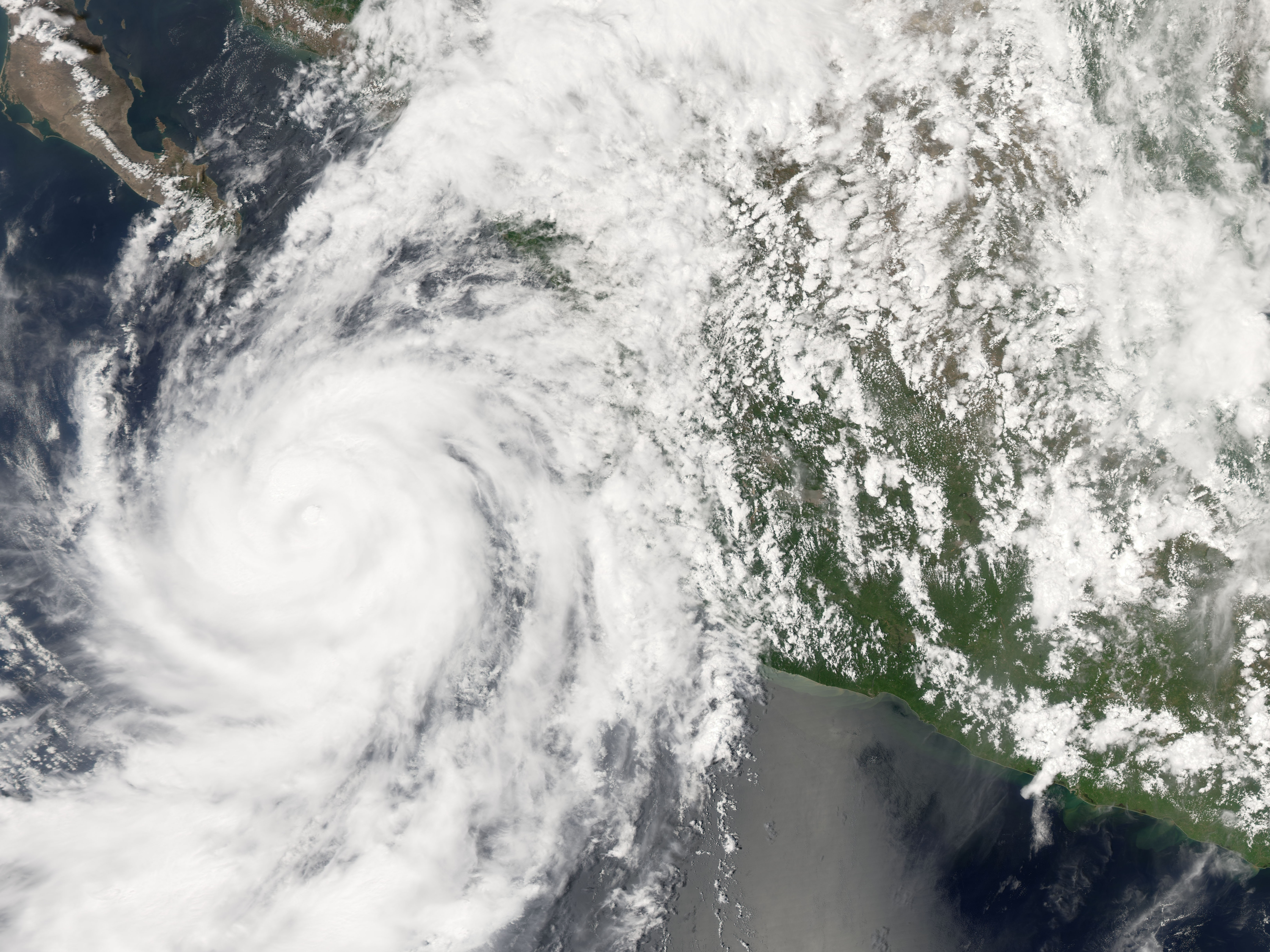 Only the third hurricane of the relatively quiet 2007 eastern Pacific hurricane season, Hurricane Henriette was also the first hurricane of the season to make landfall. Henriette skimmed up the Mexican coastline as it developed between August 30 and September 4, 2007. The National Hurricane Center predicted that the storm would come ashore over Baja California on September 4 as a strengthening Category 1 hurricane before traveling north through Mexico and into the United States. The Moderate Resolution Imaging Spectroradiometer (MODIS) on NASA’s Aqua satellite captured this image of Henriette at 2:10 p.m. local time (21:10 UTC) on September 3. At that time Henriette was still a tropical storm with sustained winds of 110 kilometers per hour (70 miles per hour). Though not as powerful as Hurricane Felix, which was pounding Central America from the Caribbean, Henriette had caused at least six deaths in Mexico before coming ashore. The outer bands of the storm inundated Acapulco with heavy rain that caused deadly flooding and landslides, reported the Associated Press on September 4.